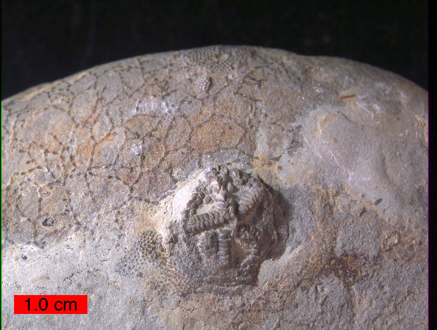 Edrioasteroid (Cystaster stellatus) with the bryozoa genus Corynotrypa from the Ordovician of northern Kentucky.Refs: Taylor, P.D. and Wilson, M.A. (1994), "Corynotrypa from the Ordovician of North America: colony growth in a primitive stenolaemate bryozoan", Journal of Paleontology, 68, pp. 241-257. Wilson, M.A. (1985), "Disturbance and ecologic succession in an Upper Ordovician cobble-dwelling hardground fauna", Science 228, pp. 575-577